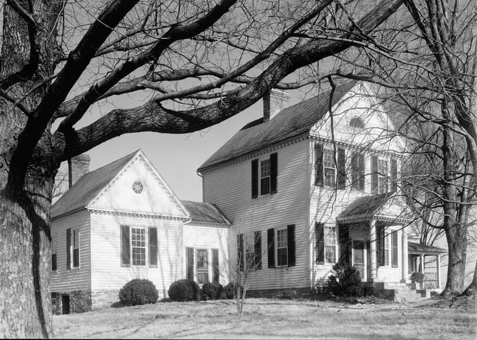 Carrsbrook, South Fork River vicinity, Charlottesville vicinity (Albemarle County, Virginia) cropped This file comes from the Historic American Buildings Survey (HABS), Historic American Engineering Record (HAER) or Historic American Landscapes Survey (HALS). These are programs of the National Park Service established for the purpose of documenting historic places. Records consist of measured drawings, archival photographs, and written reports. When reusing please credit: Library of Congress, Prints & Photographs Division, VA,2-CHAR.V,3-3 This tag does not indicate the copyright status of the attached work. A normal copyright tag is still required. See Commons:Licensing for more information. This work is in the public domain in the United States because it is a work prepared by an officer or employee of the United States Government as part of that person’s official duties under the terms of Title 17, Chapter 1, Section 105 of the US Code. See Copyright. Note: This only applies to original works of the Federal Government and not to the work of any individual U.S. state, territory, commonwealth, county, municipality, or any other subdivision. This template also does not apply to postage stamp designs published by the United States Postal Service since 1978. (See § 313.6(C)(1) of Compendium of U.S. Copyright Office Practices). It also does not apply to certain US coins; see The US Mint Terms of Use. This file has been identified as being free of known restrictions under copyright law, including all related and neighboring rights.